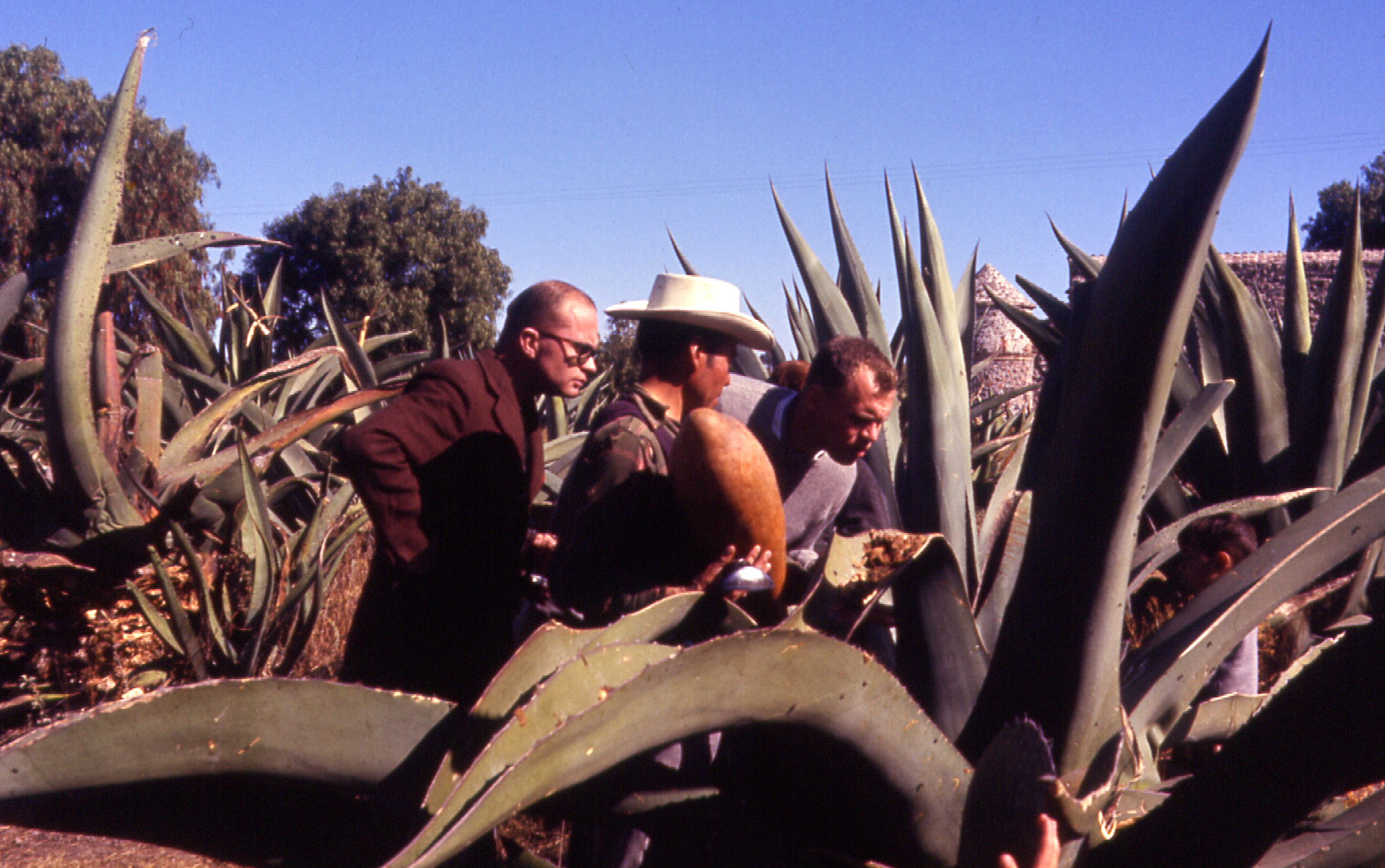 Tlachiquero (pulque gatherer, State of Hidalgo, Mexico